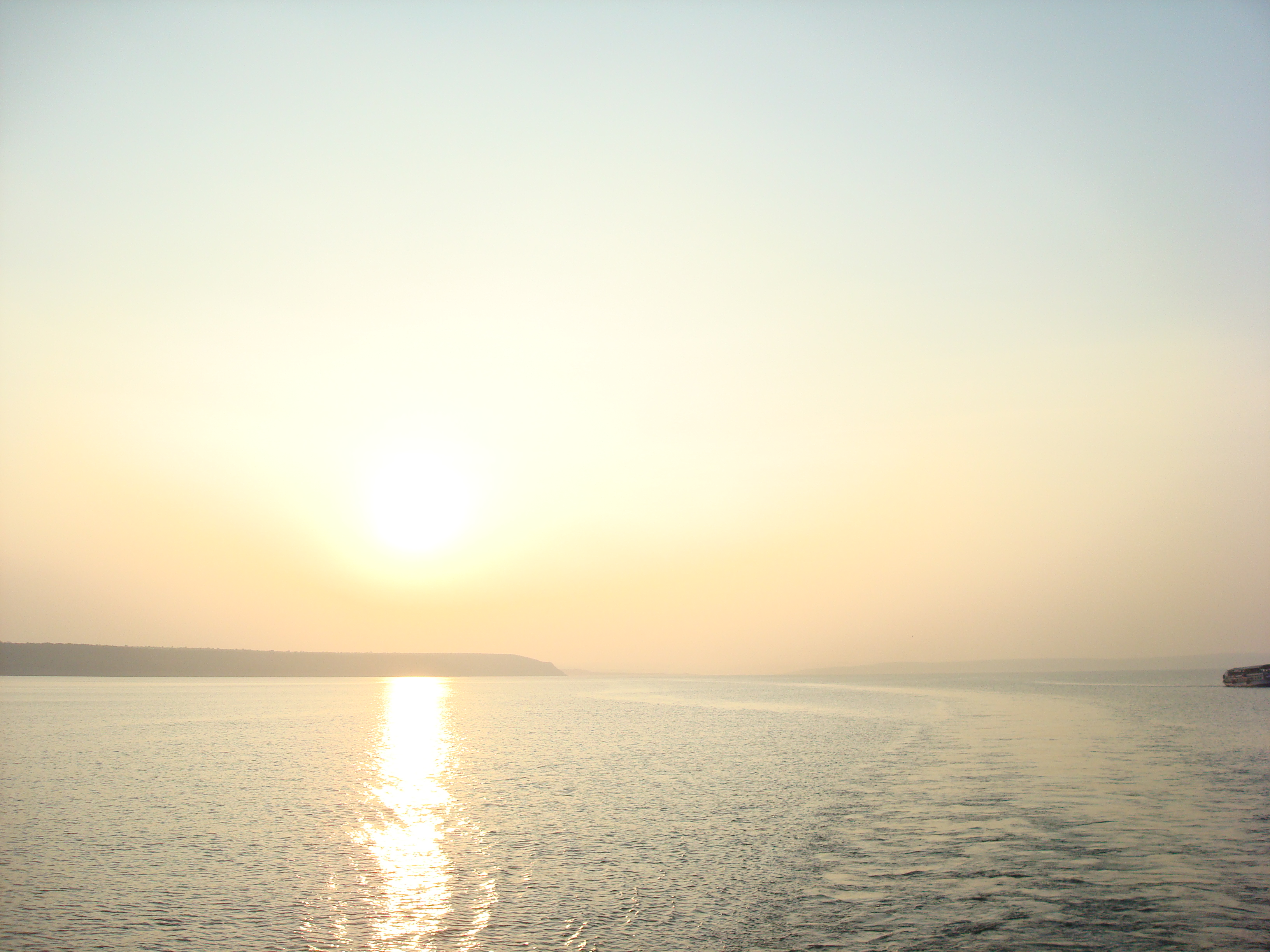 Sunset